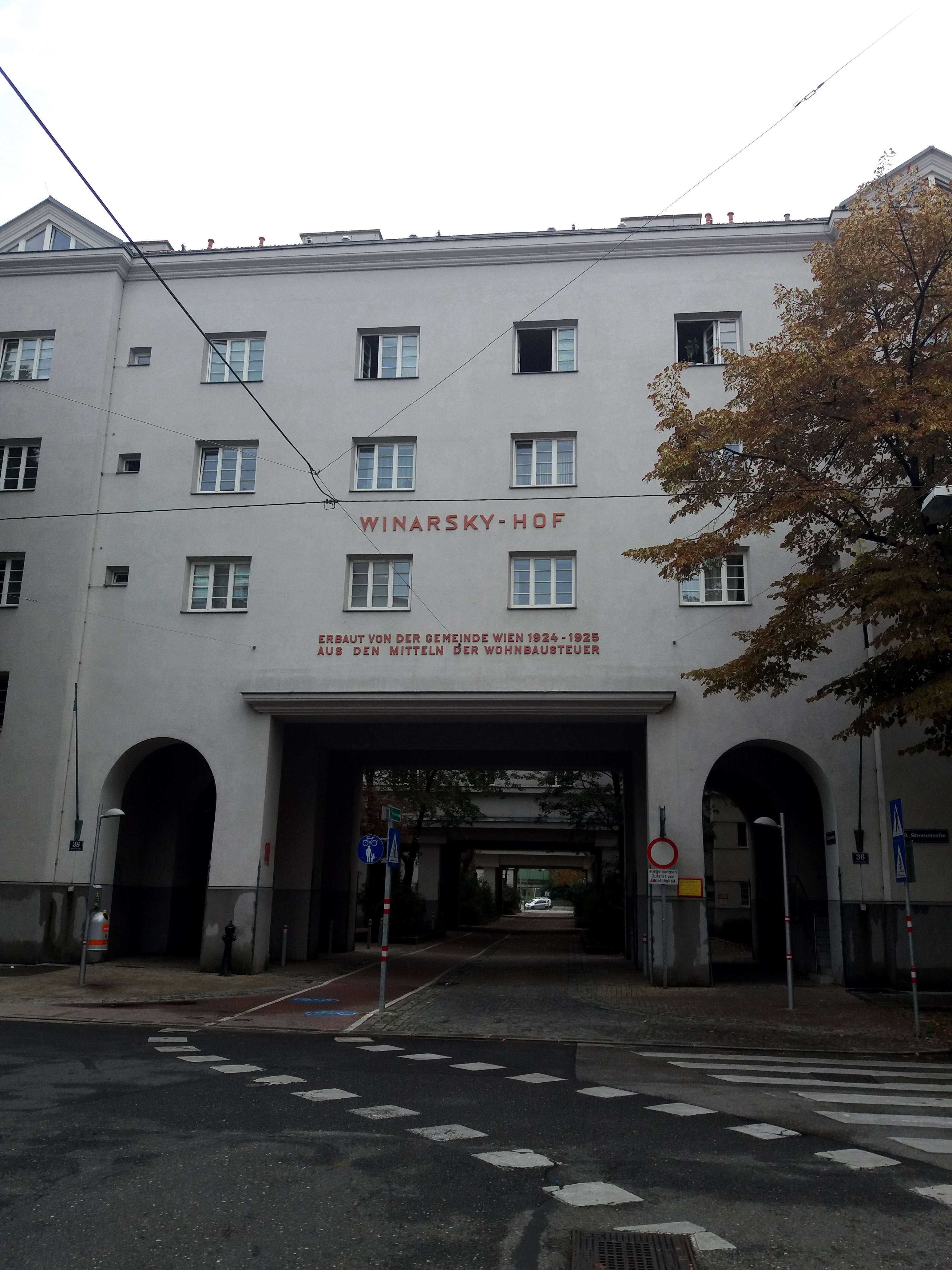 Winarsky-Hof on Stromstraße, with Leystraße running right through it; Vienna, Austria